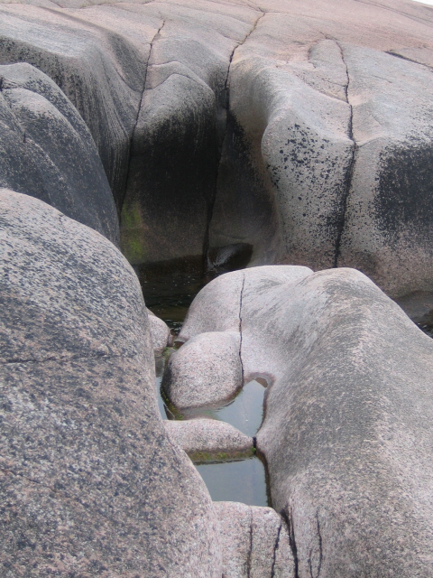 A giant's kettle on Blå Jungfrun national park, in Sweden.